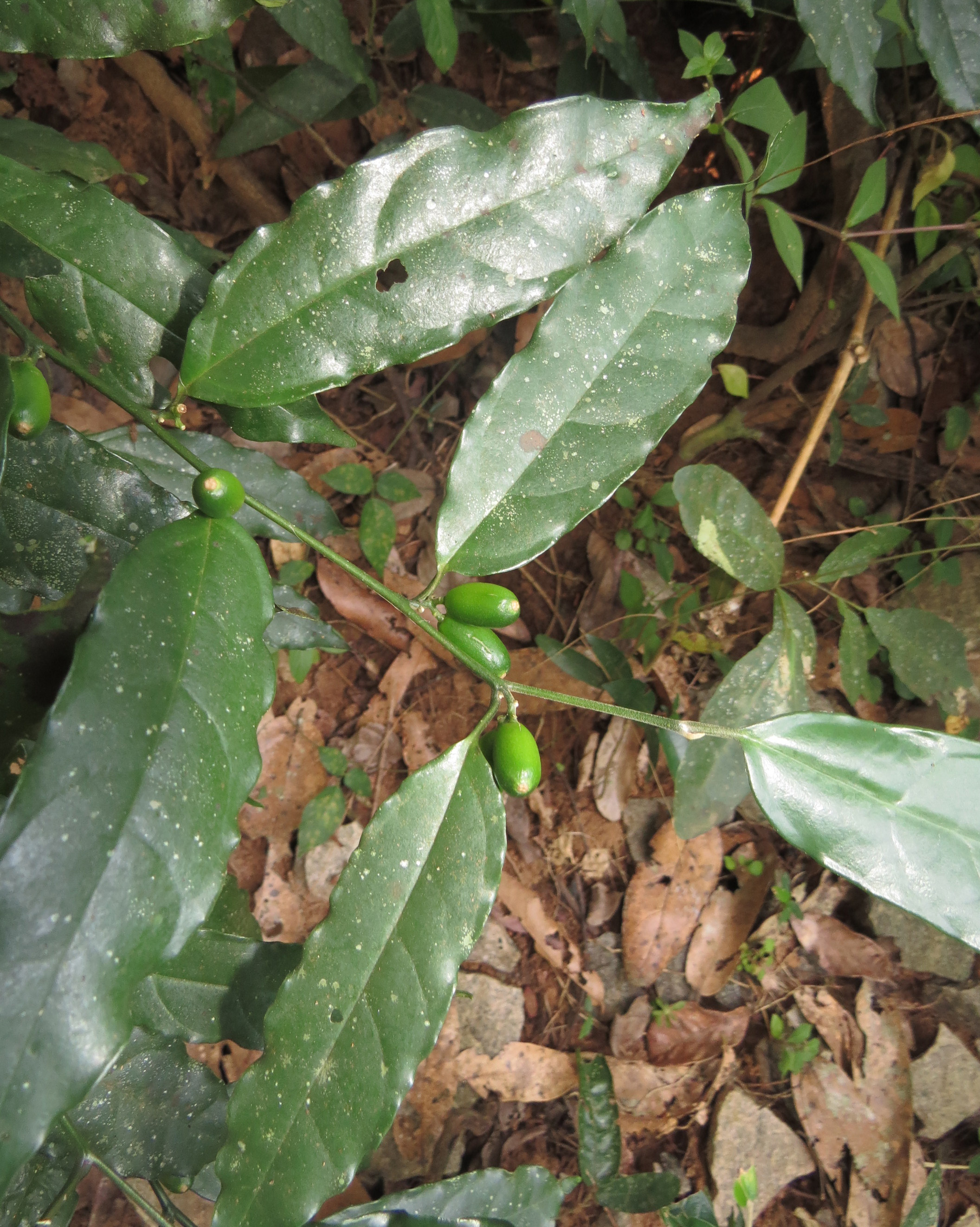 Gomphandra tetrandra